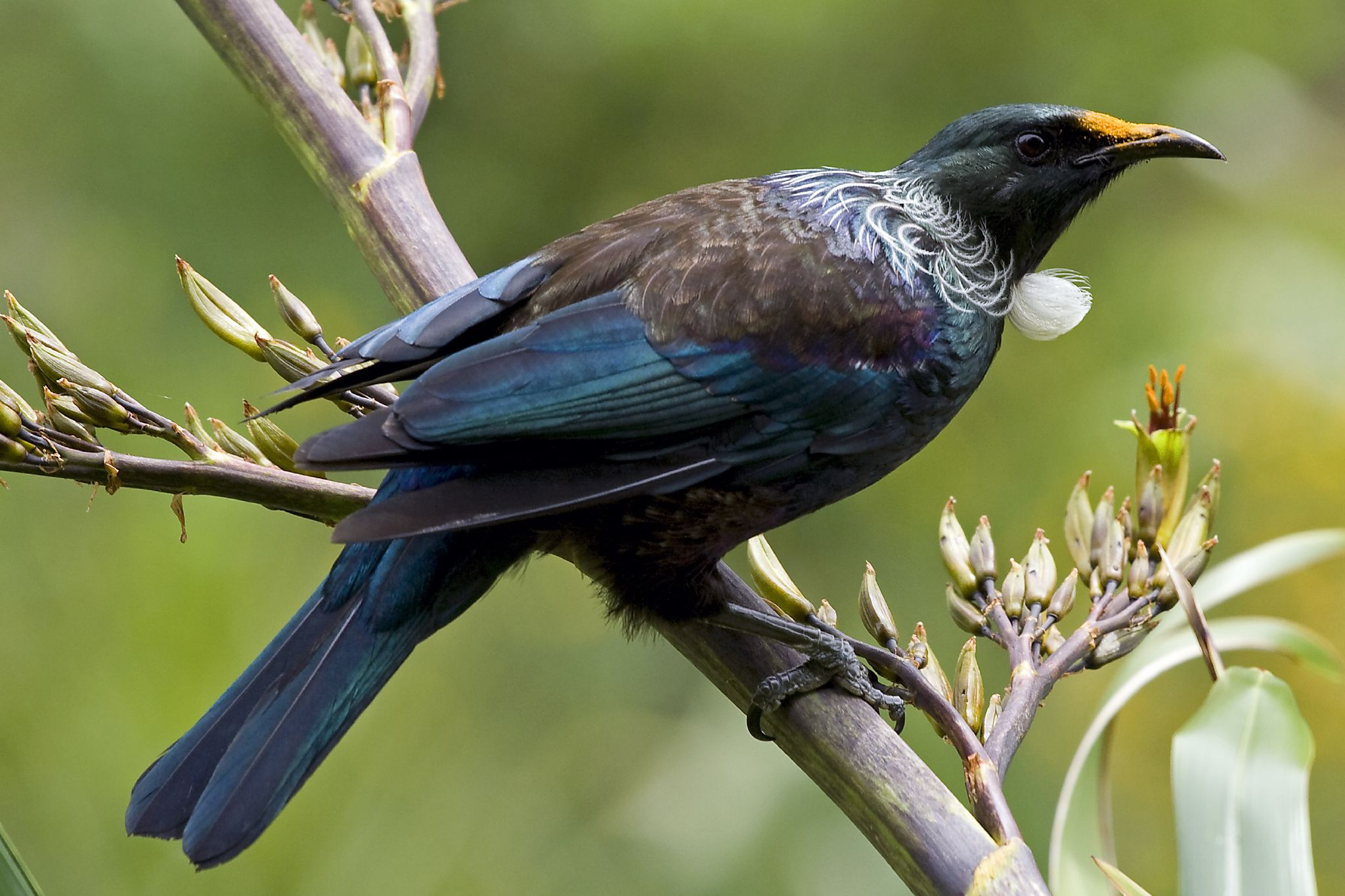 Tui (Prosthemadera novaeseelandiae) on flax bush